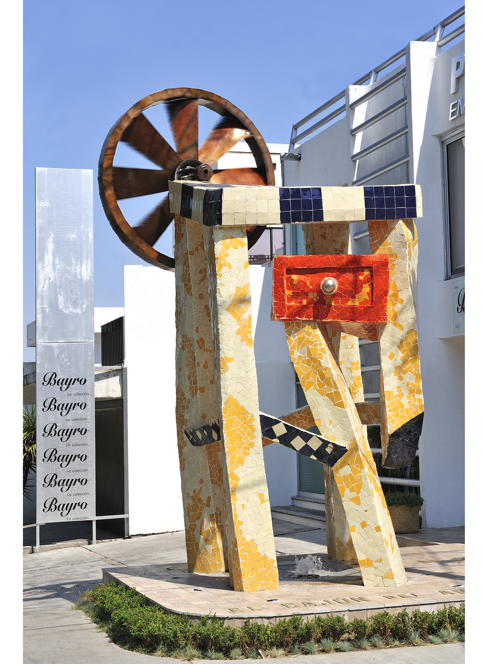 Craftsman's Box